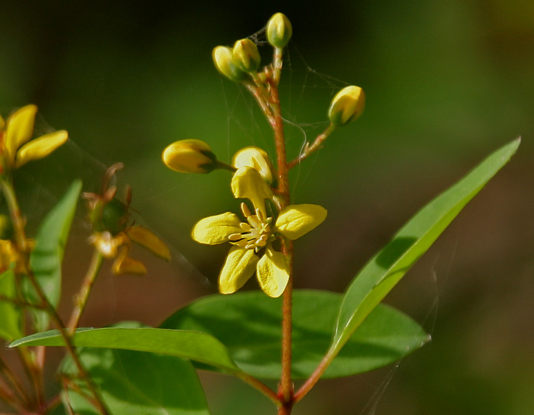 Golden Thyrallis Galphimia gracilis in Hyderabad , India.